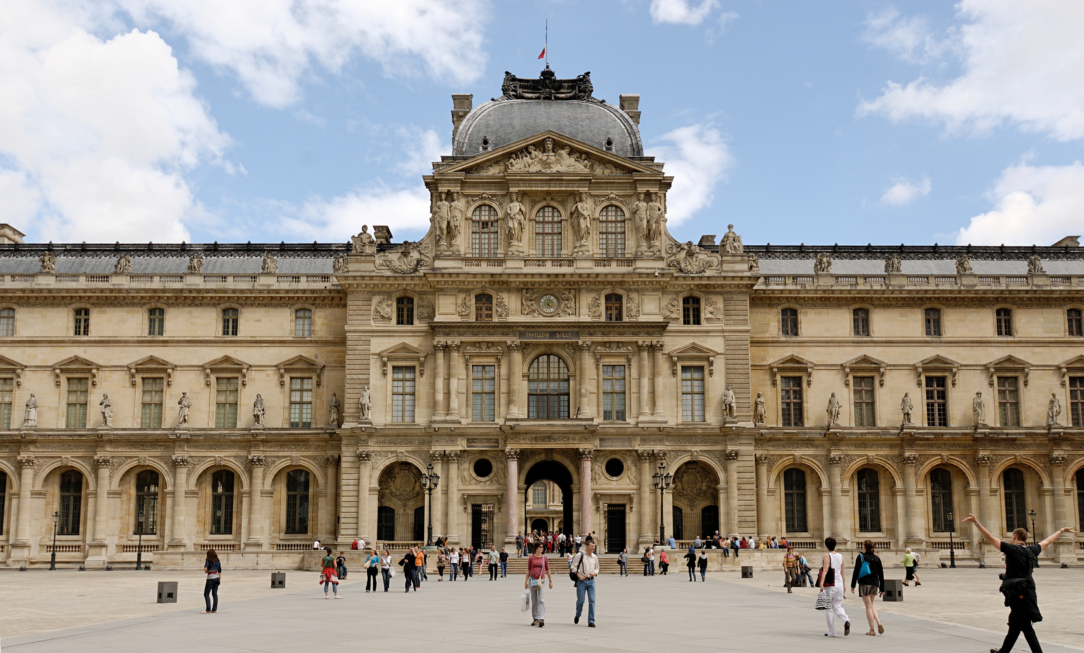 The Pavillon Sully in the Napoleonic part of the Louvre, Paris.